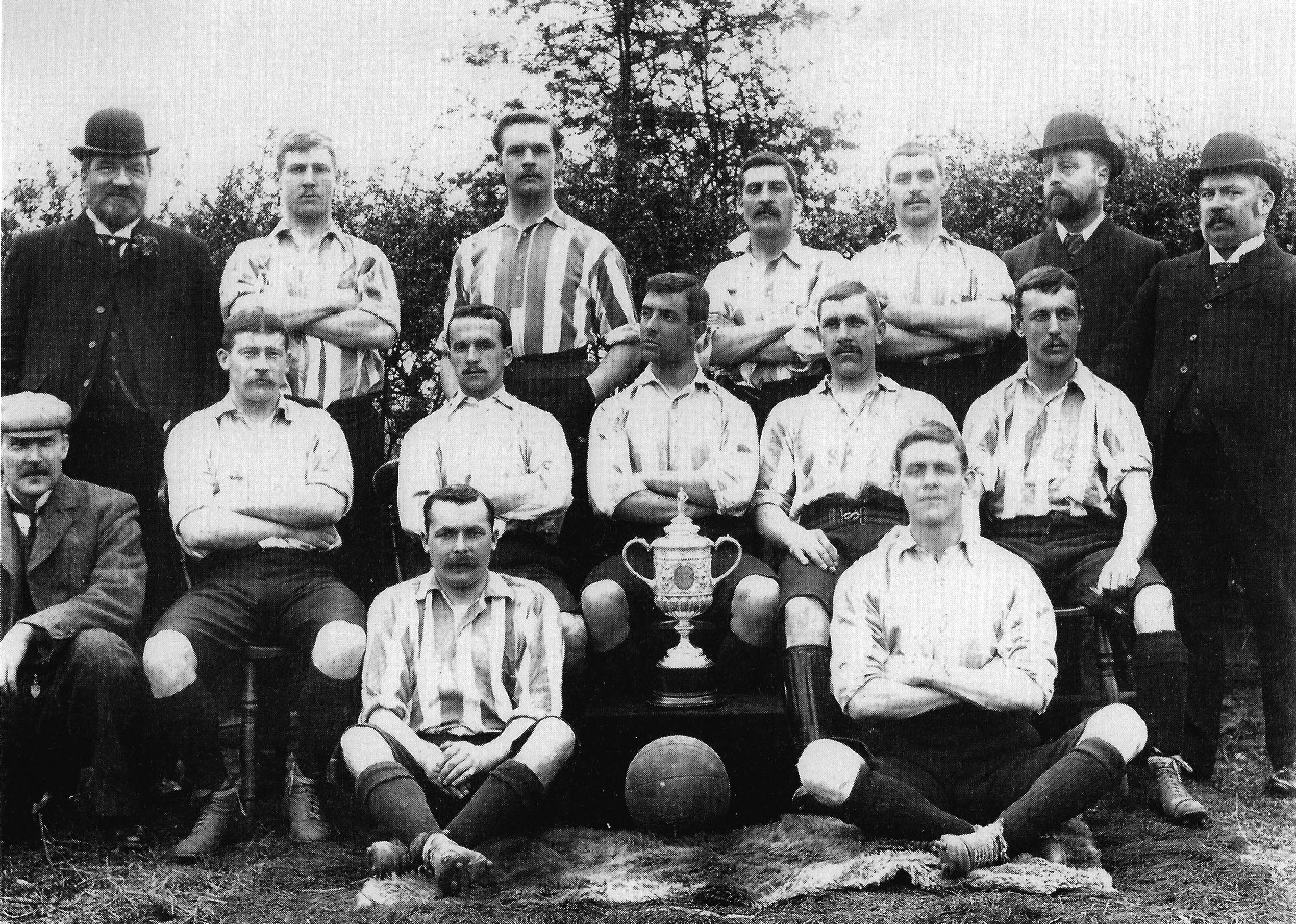 The Sheffield Wednesday FC players posing with the FA Cup trophy won after defeating Crystal Palace.